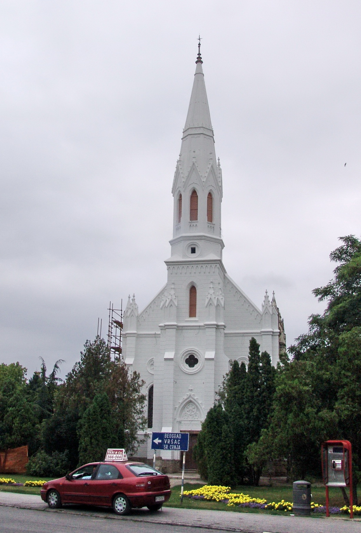 Reformation church in Zrenjanin, northern facade with bell tower